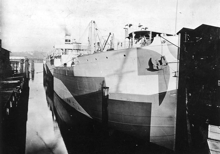 The cargo ship SS West View prior to her US Navy service as USS West View (1918).